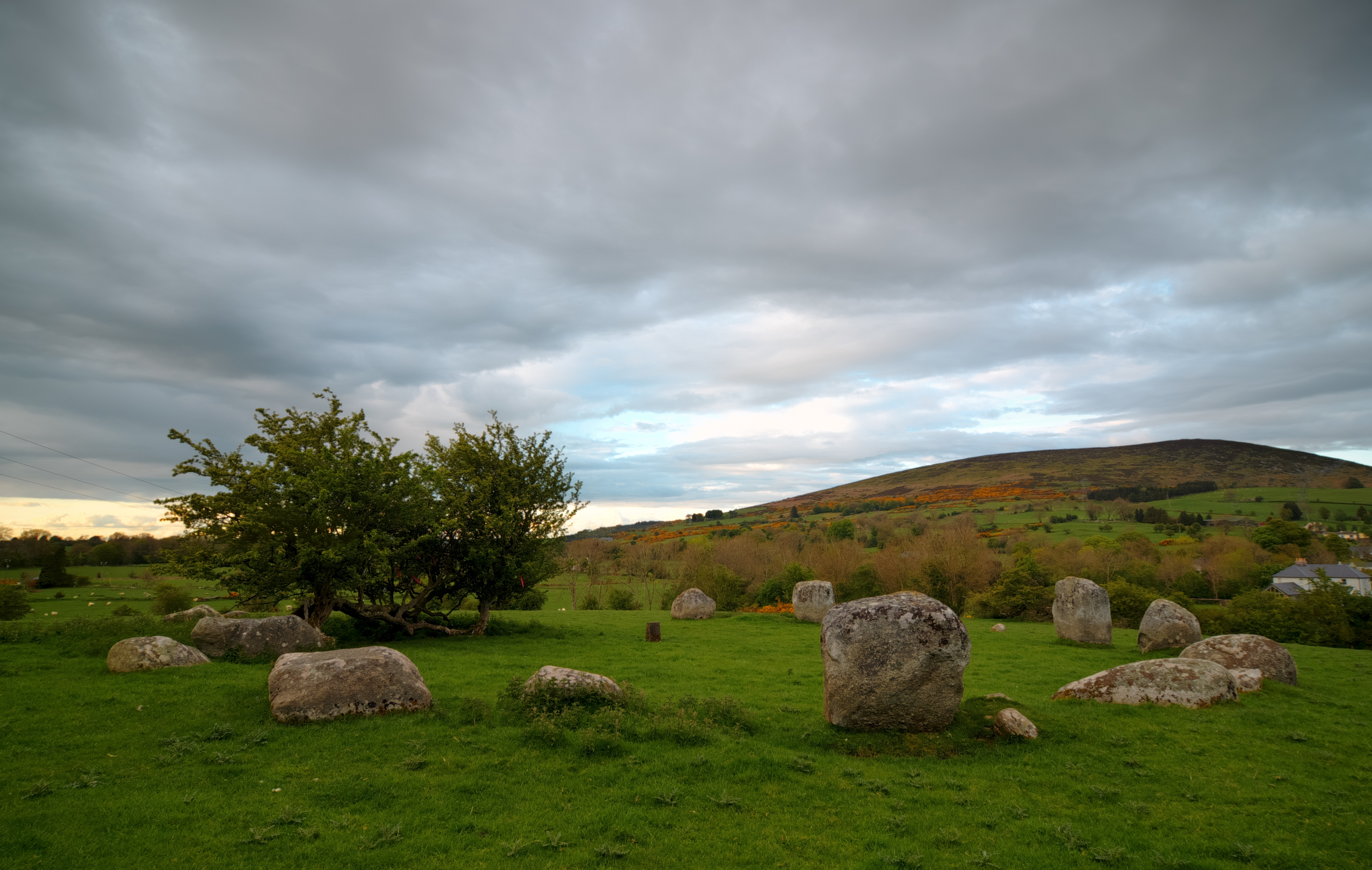 The Piper's Stones at Athgreany, Co. Wicklow. The placename "Athgreany" comes form the Irish name "Achadh Gréine" or "Field of the Sun", which perhaps gives an idea of the original purpose of this stone circle. the hawthorn bush at the left hand side is a so-called "rag bush" - traditionally, a strip of cloth from the clothing of an ill person would be tied to the tree. As the cloth rotted away, the illness would disappear.